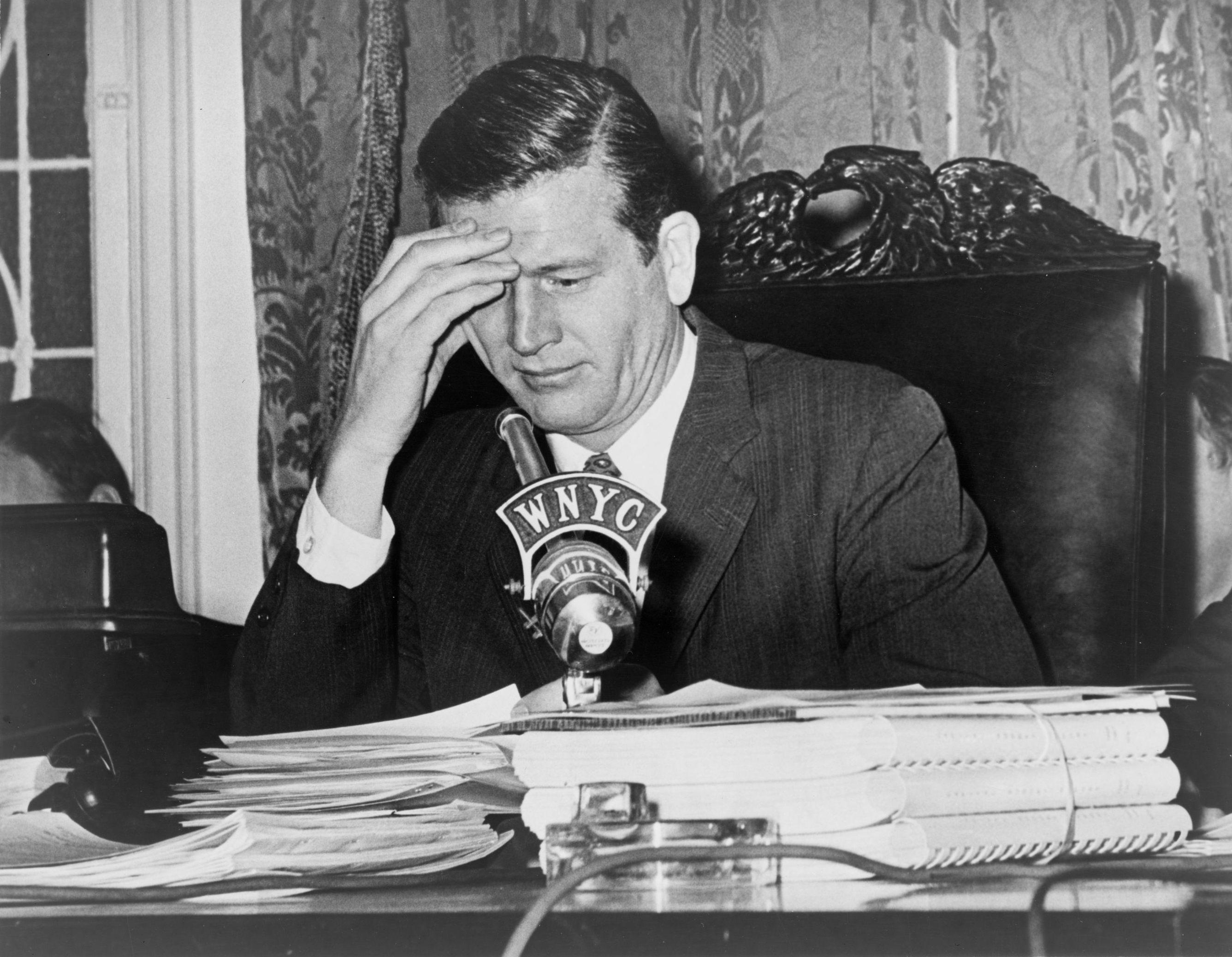 Mayor John Lindsay at the first public hearing on proposed executive capital budget / World Telegram & Sun photo by O. Fernandez.